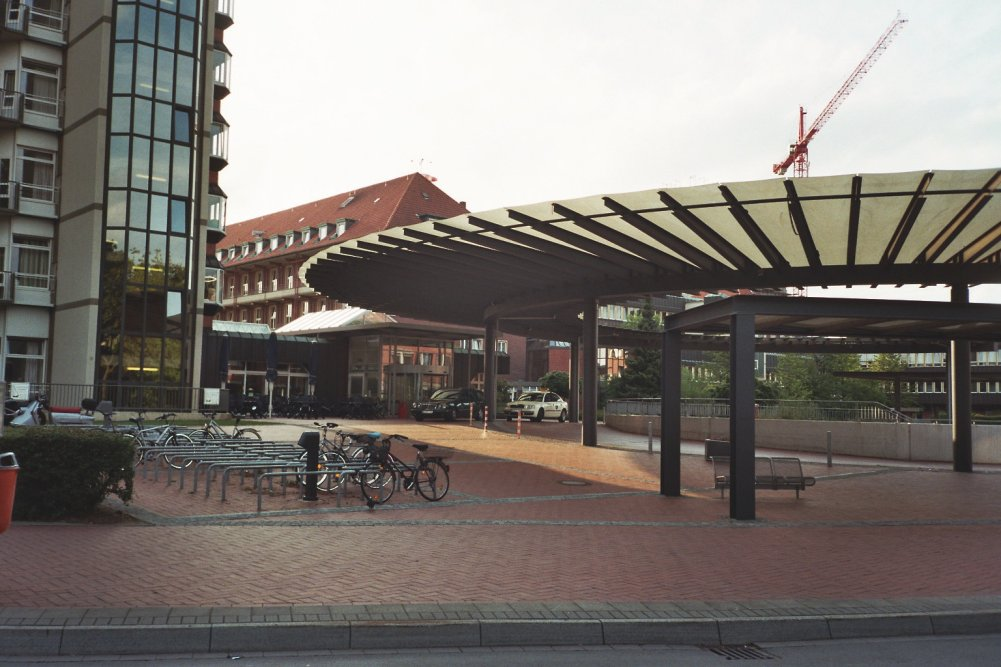 The "Bergmannsheil", the first german accident hospital in Bochum, Germany